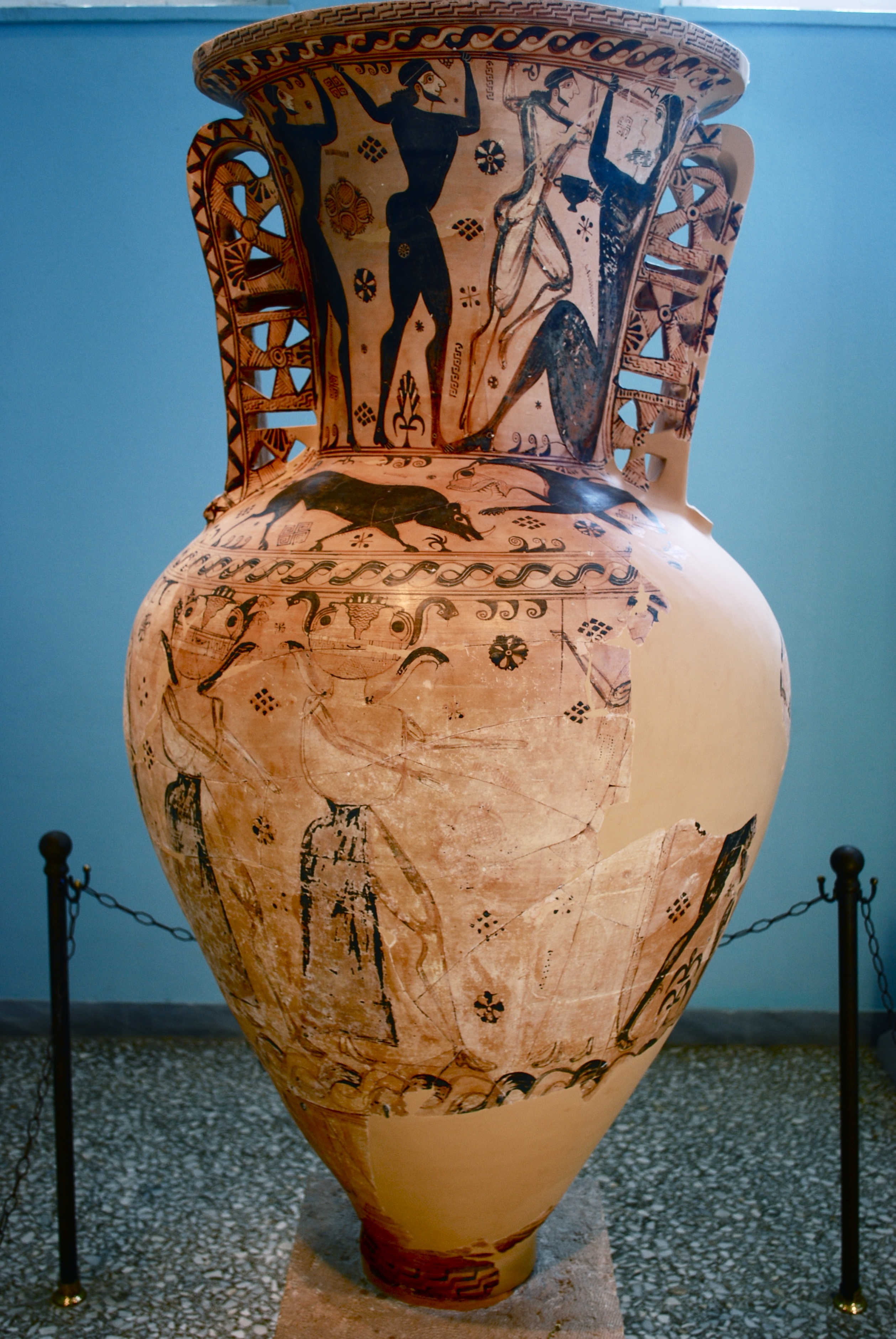 Polyphemus Amphora (Eleusis Amphora), name vase of the Polyphemus Painter, proto-Attic neck amphora, ca. 650 BC, Archaeological Museum of Eleusis. Photo by Panegyrics of Granovetter (Sarah Murray). -- View original source for licensing information.